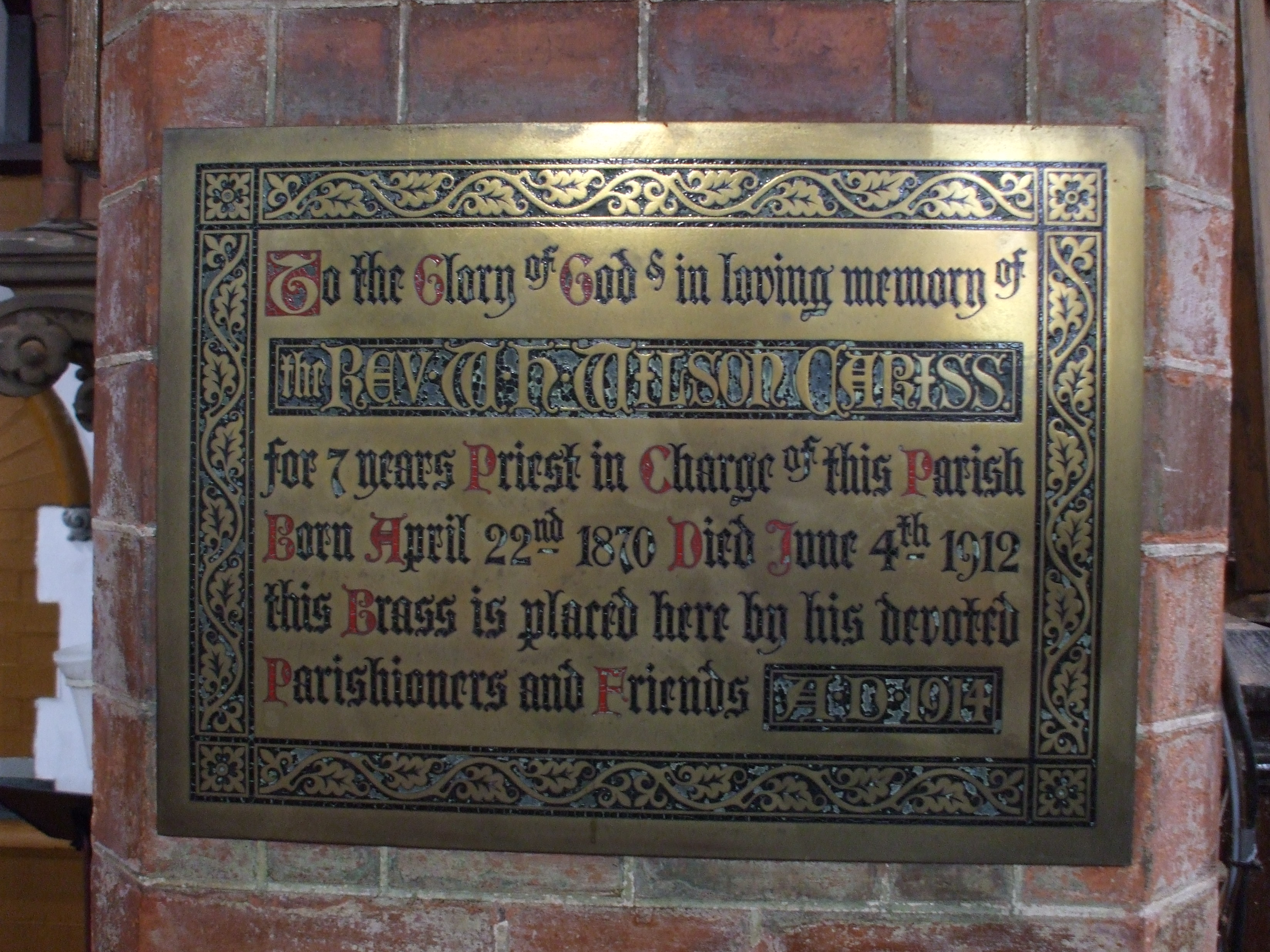 memorial to Revd. W.H. Wilson Carriss in the chancel St Cyprians Hay Mills